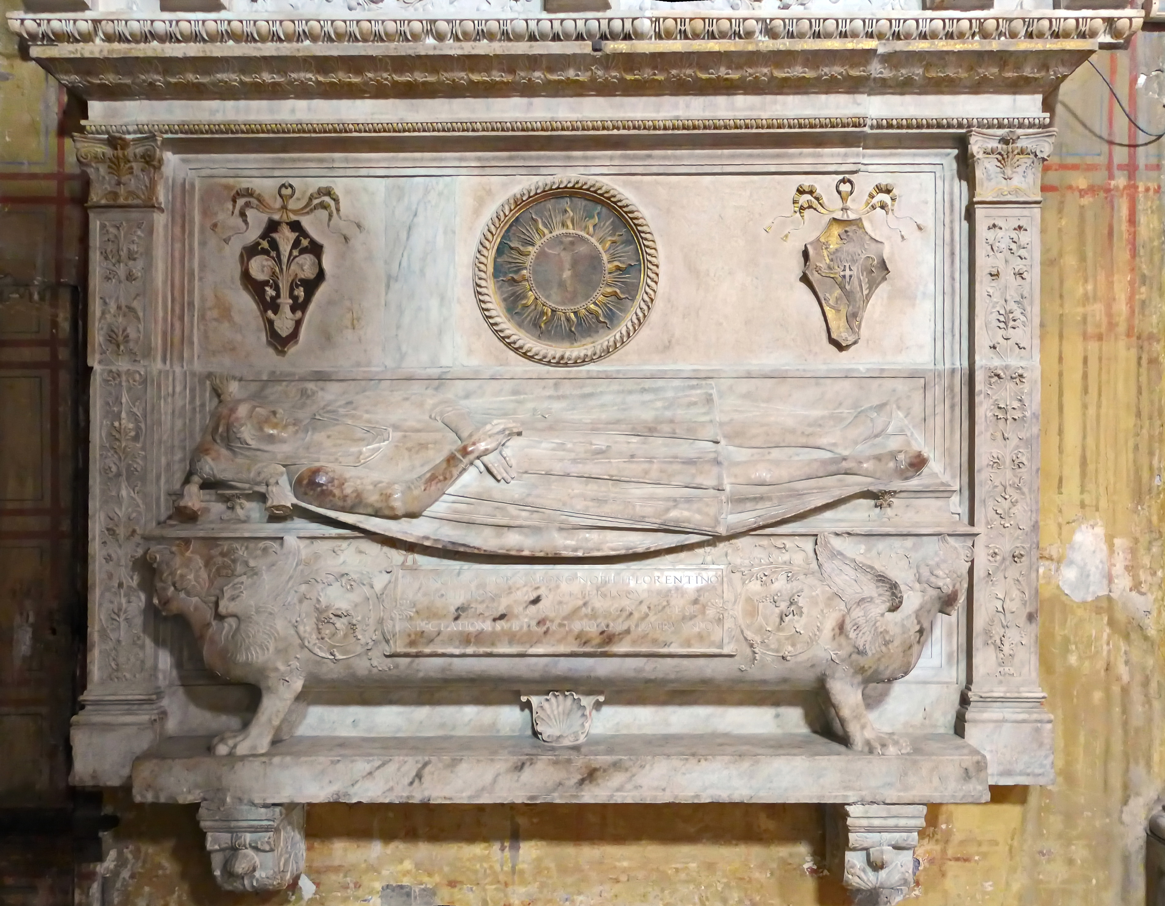 Funeral Monument for Francesco Tornabuoni; Santa Maria sopra Minerva, Romeo; Mino da Fiesole